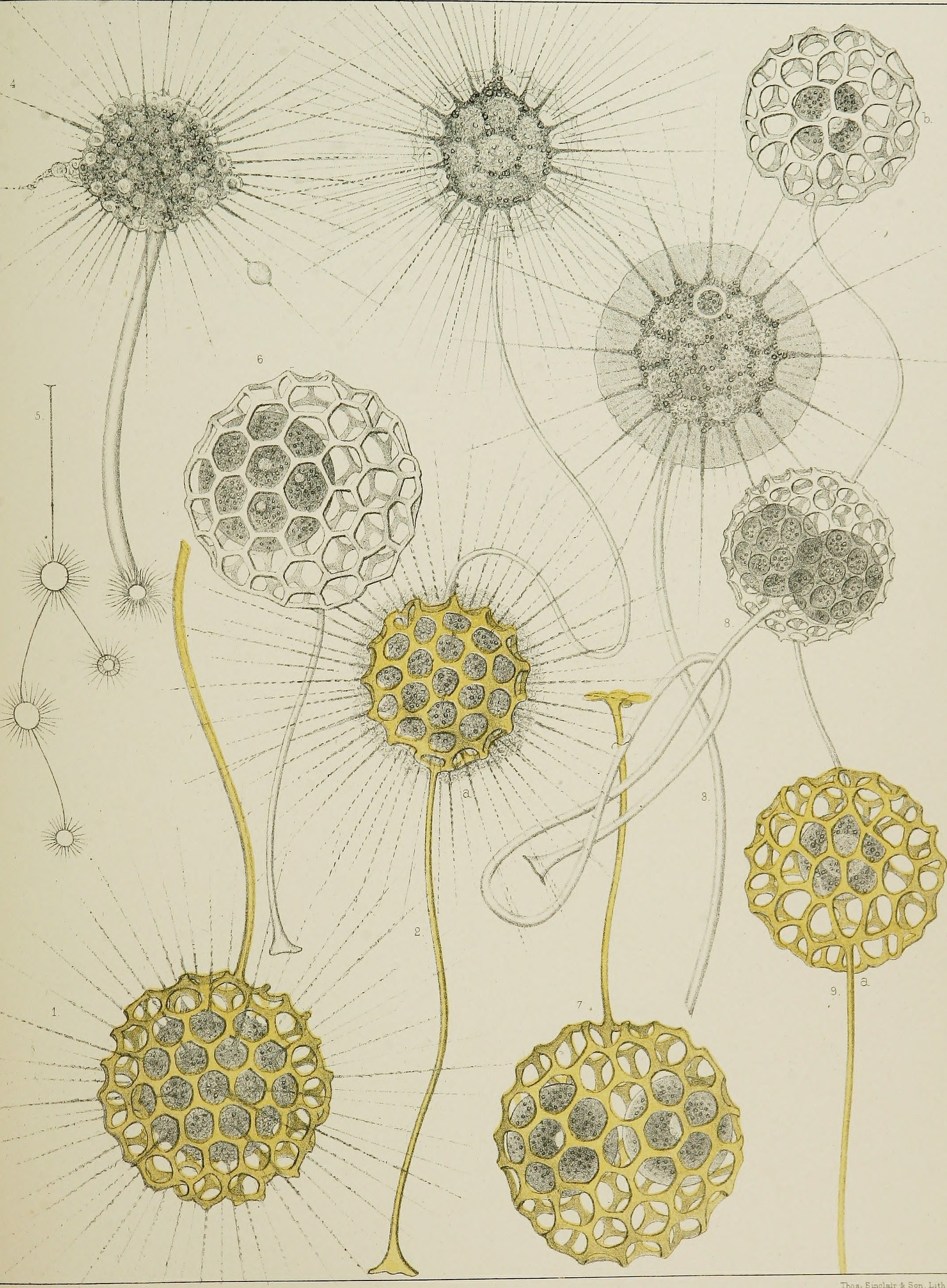 Title: Fresh-water rhizopods of North America Year: 1879 (1870s) Authors: Leidy, Joseph, 1823-1891 Subjects: Rhizopoda; Freshwater animals Publisher: Washington, Government Printing Office Text Appearing Before Image: U-S, GEOLOGICAL SURVEY OF THE TERRITORIES. PLATE XLT/ Text Appearing After Image: Jos Leidy, Del CLATHRULINA ELEGANS. I